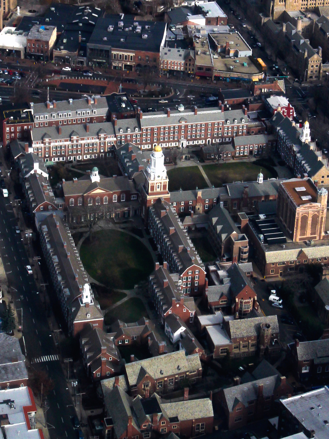 Aerial view of Pierson and Davenport Colleges